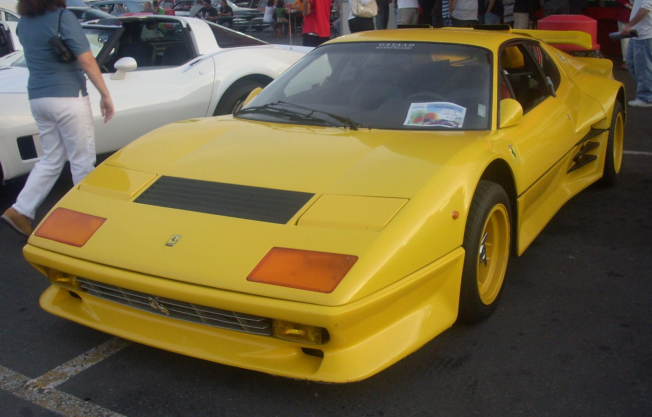 1981 Ferrari 512BB photographed in Montreal, Quebec, Canada at Gibeau Orange Julep.